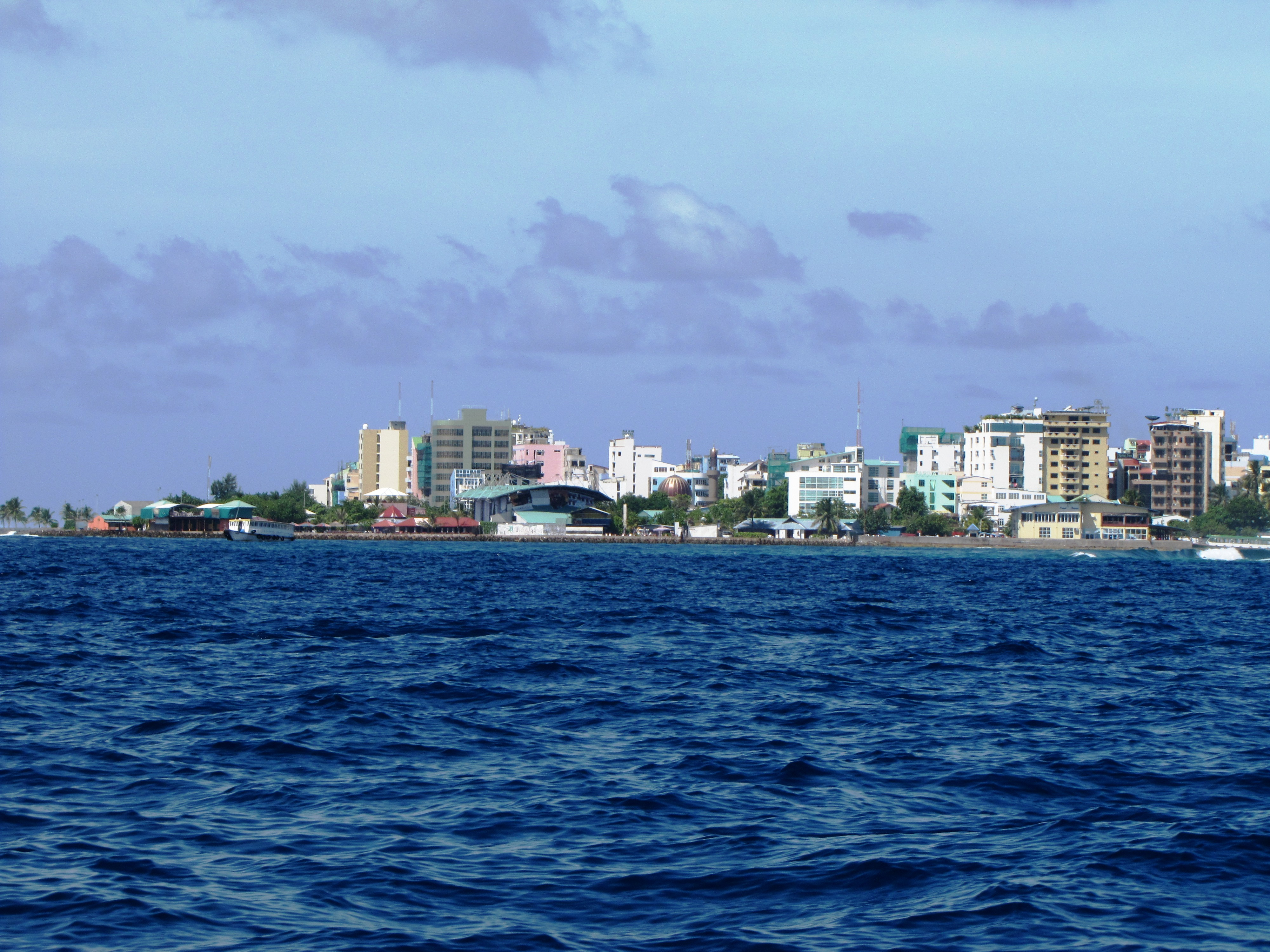 A photo is taken of Male, Maldives, on July 22, 2010. [State Department photo/ Public Domain]